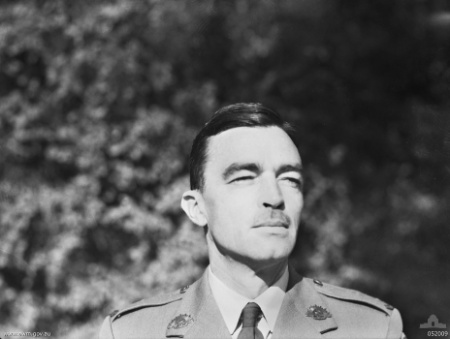 Gavin Merrick Long, General Editor, Official History of Australia's part in World War II